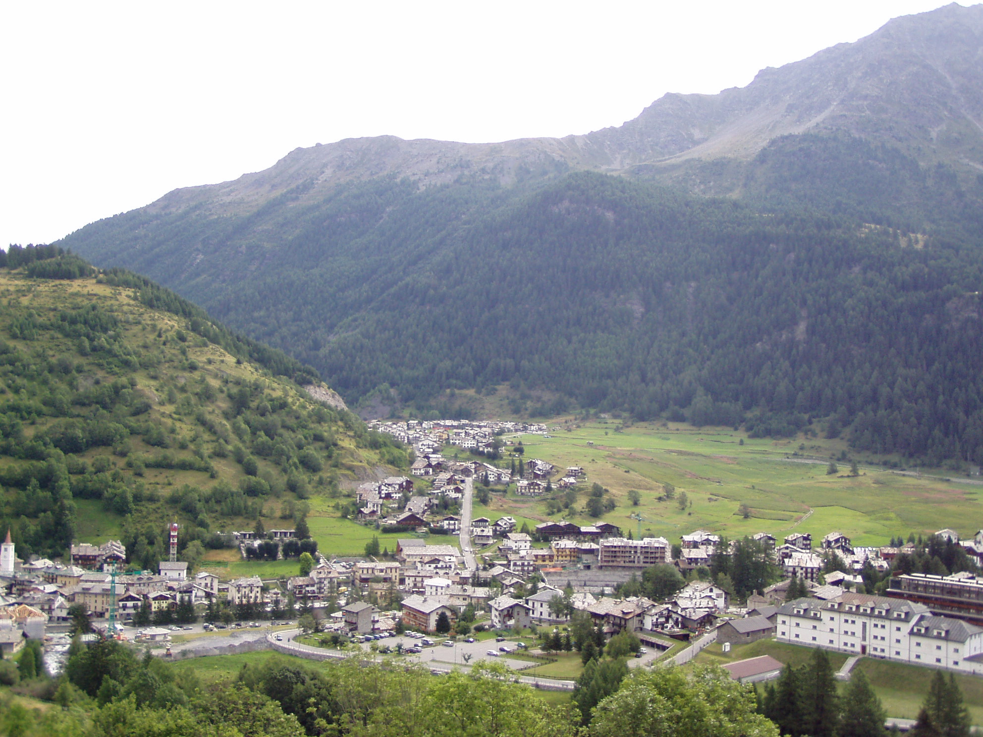 La Thuile, Valle, d'Aosta, Italy.